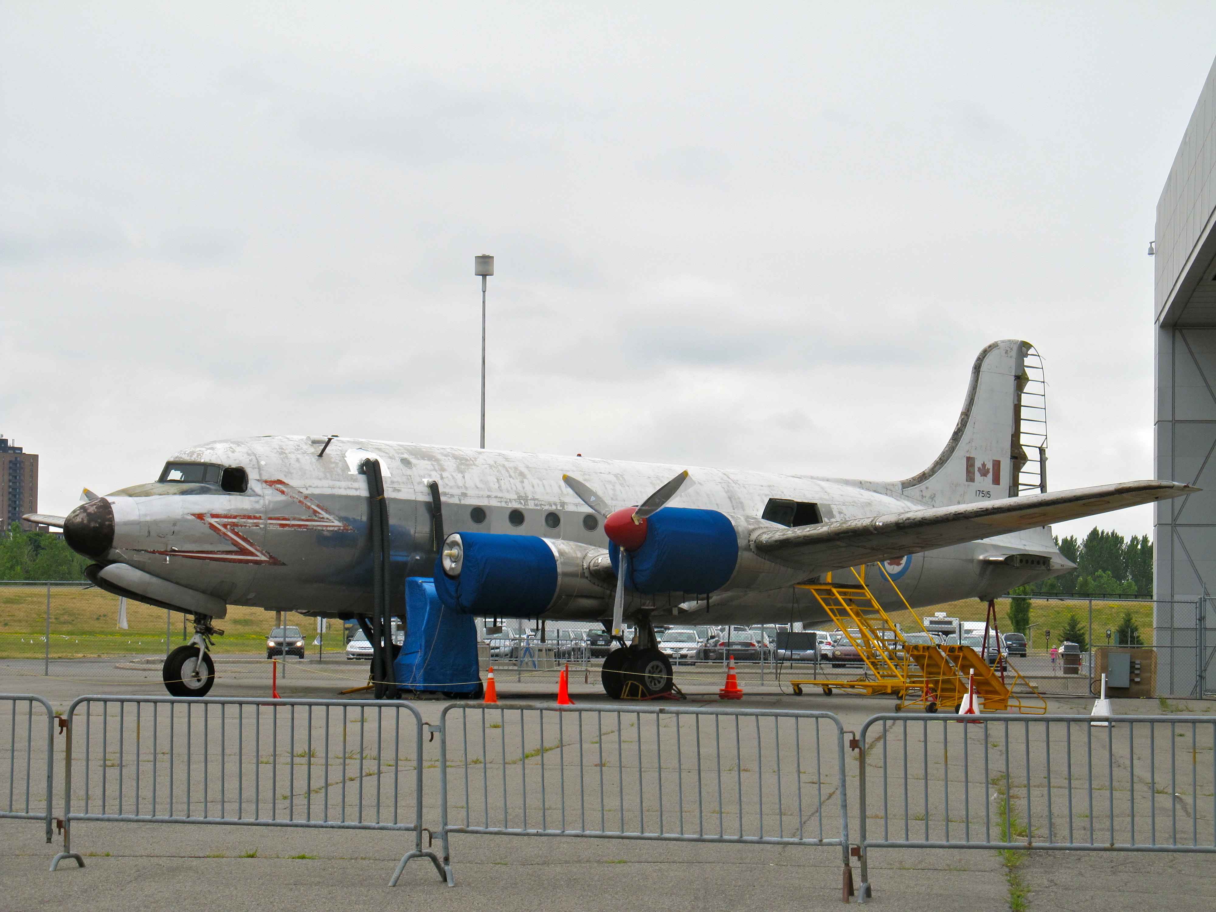 Canadair North Star at the Canadian Air and Space Museum, Ottawa.